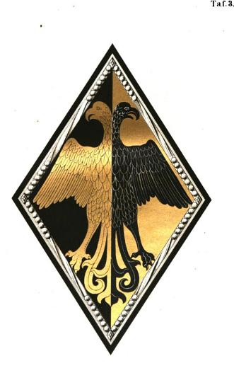 Coat of arms of the company of Flandernfahrer, Lübeck (so the article in which picture appeared; today this has been identified as the coat of arms of the Londonfahrer company